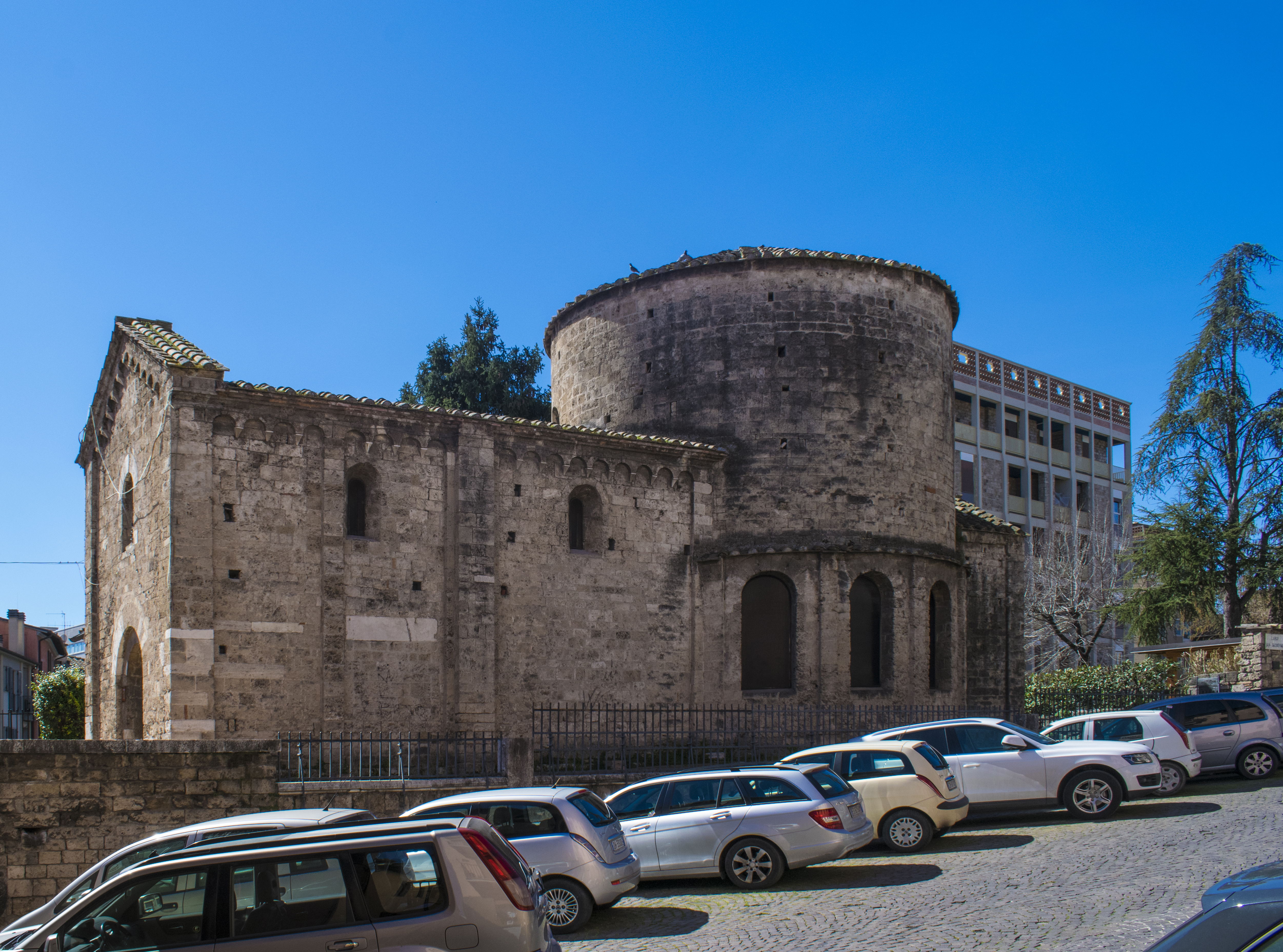 Chiesa di San Salvatore(Terni), un tempo appartenente alla nobile e potente famiglia ternana guelfa dei Manassei. Internamente conserva ancora la cappella dell'omonima famiglia con pregevoli affreschi del XIV secolo.